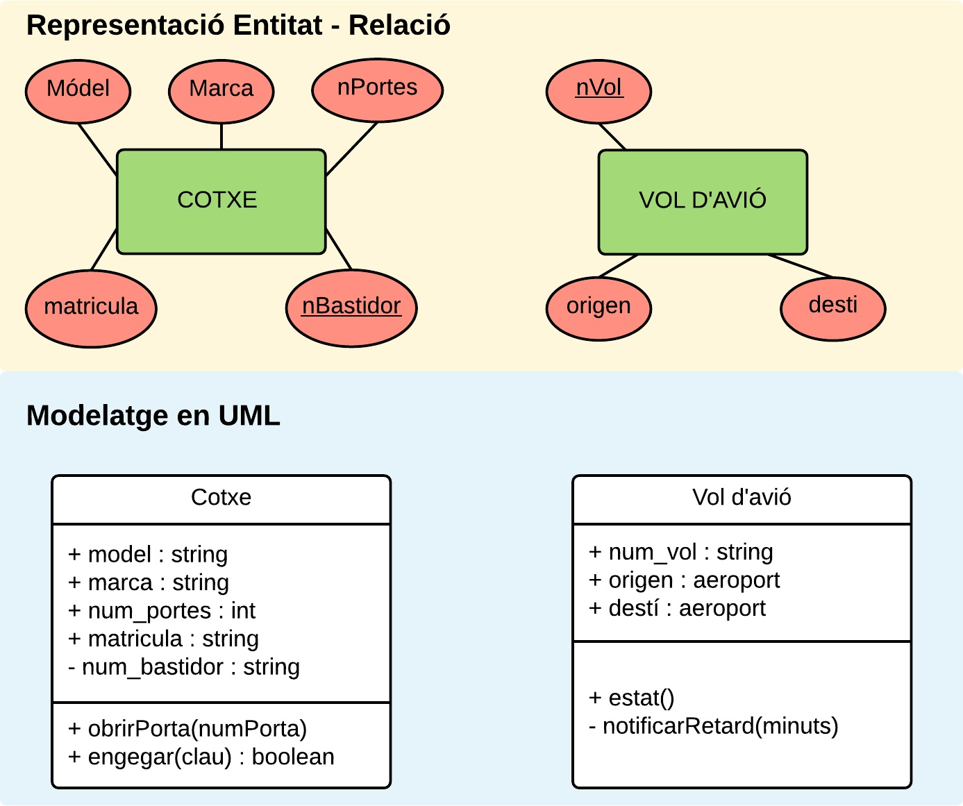 Used for ER Diagram article on Catalan's Wikipedia. It shows the differences between ER and UML notation